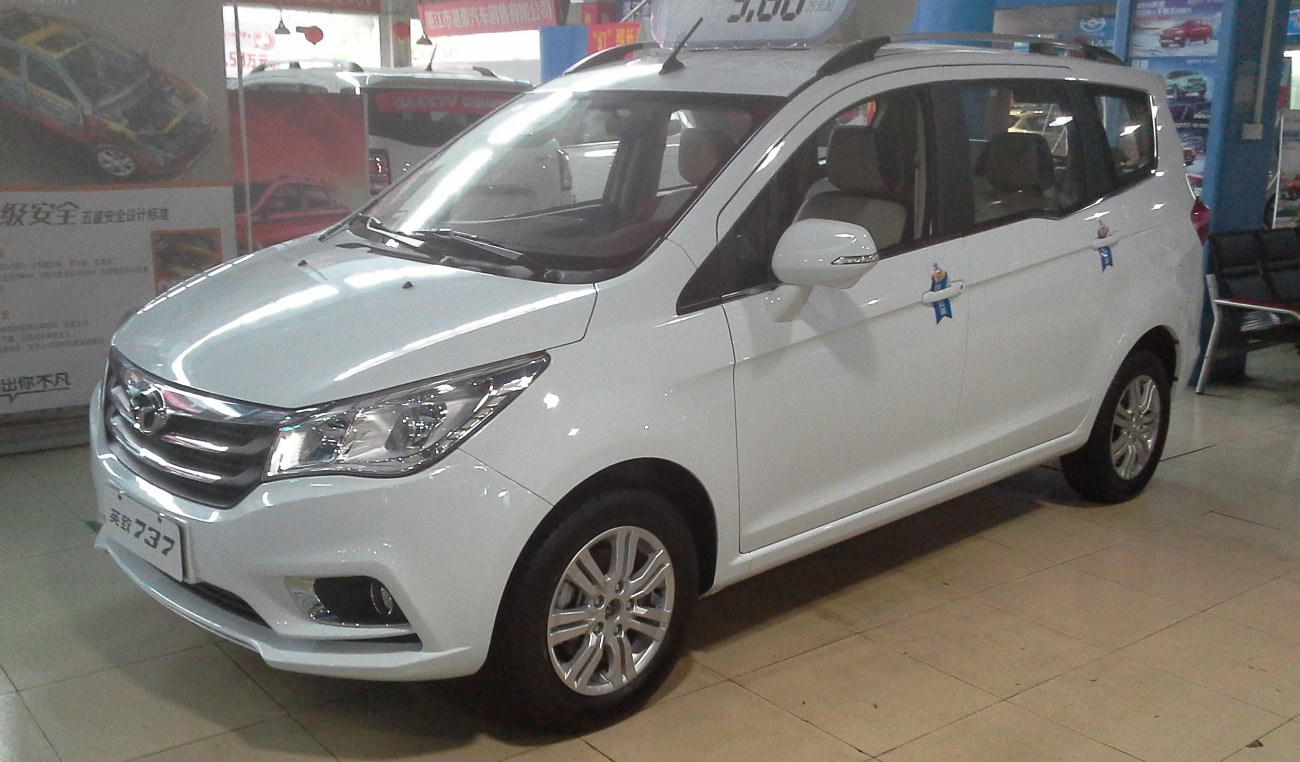 Enranger 737 photographed in Zhanjiang, Guangdong province, China.